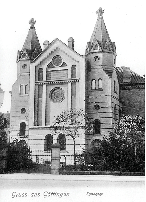 Synagogue of Göttingen destroyed in 1938 . Postcard of the front façade